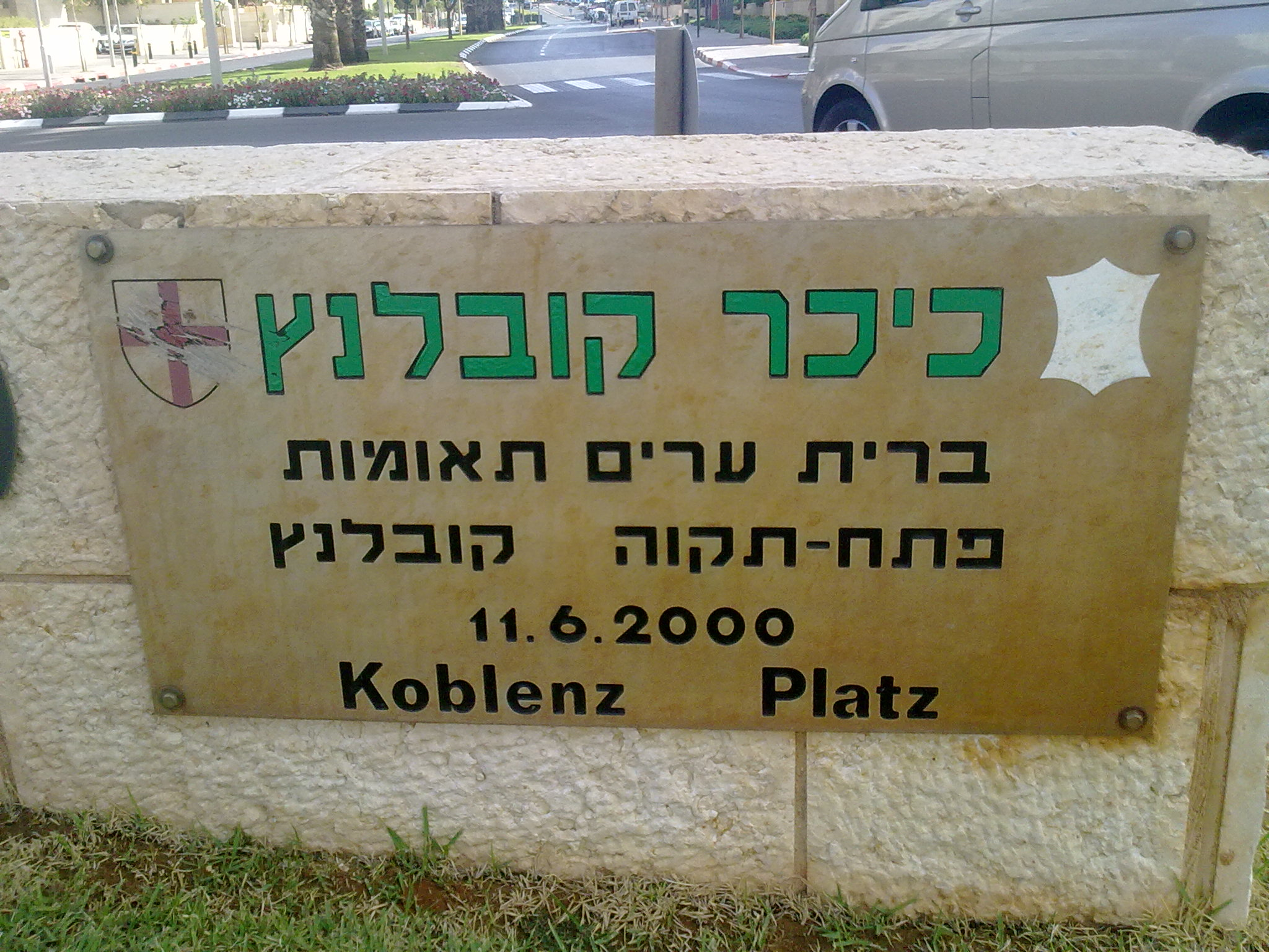 Sign in Koblenz Square in Petah Tikvah, Israel.